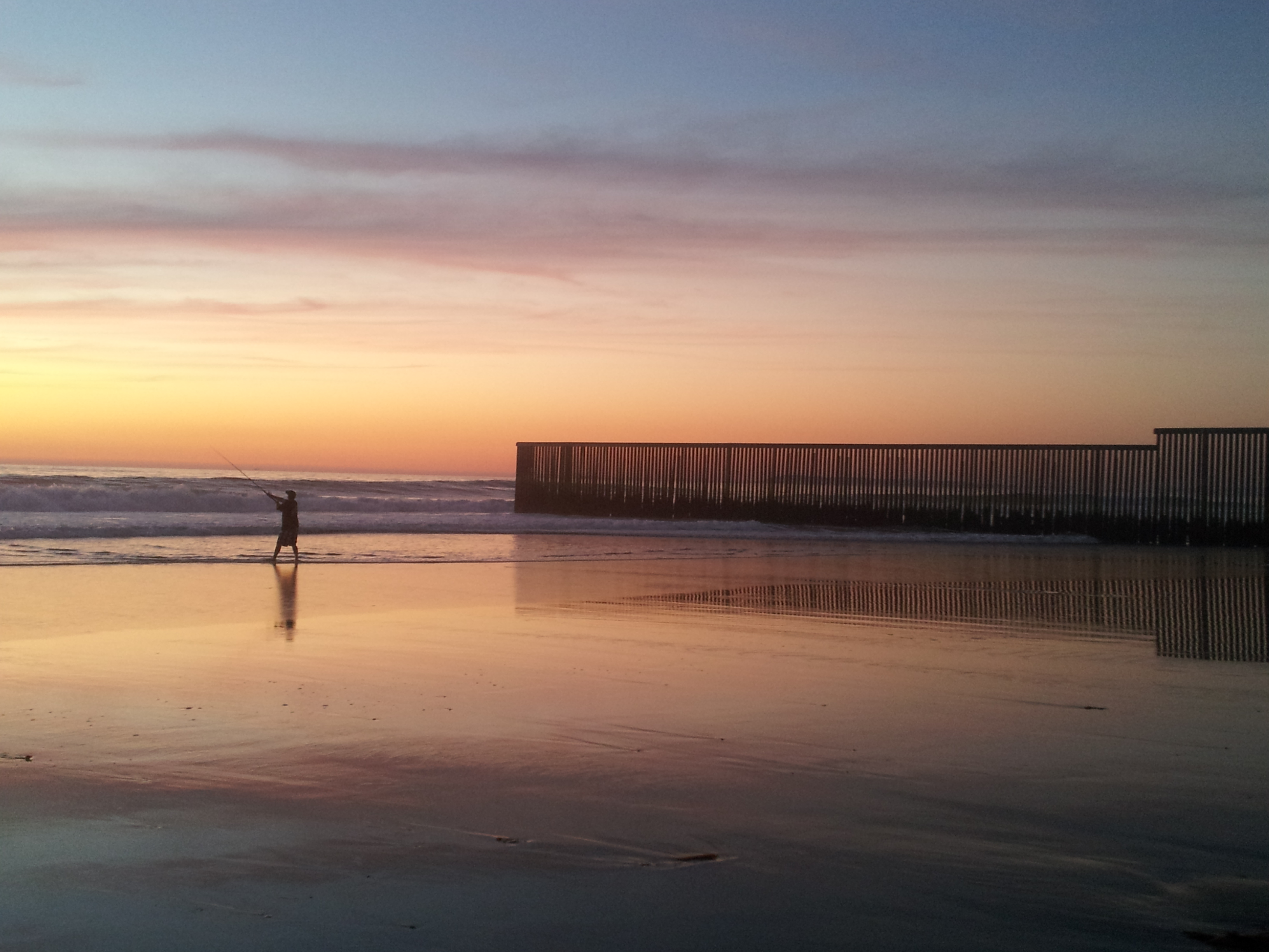 A man fishing at the border fence at Playas de Tijuana.